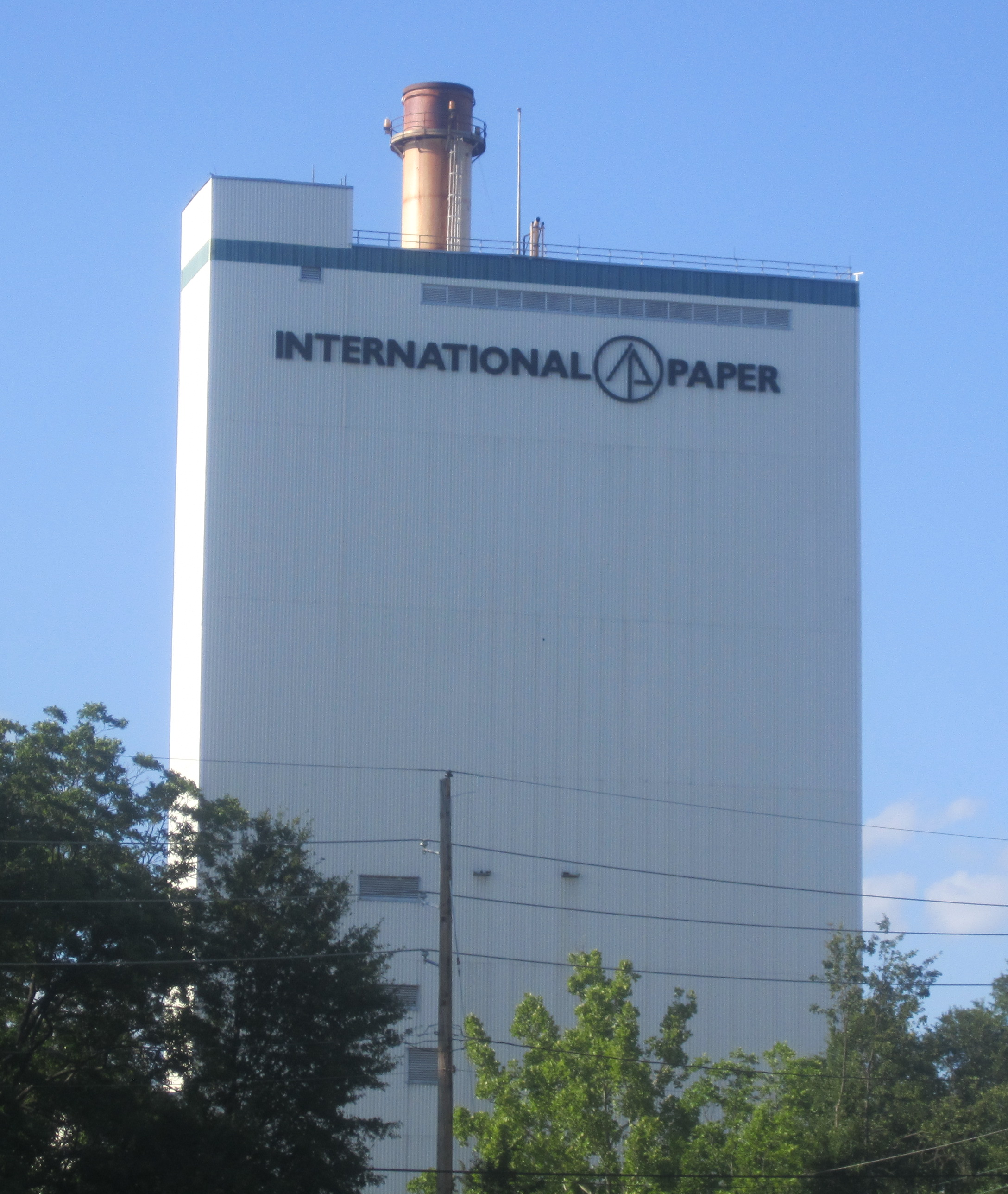 I took photo of former International Paper Company plant in Bastrop, LA, with Canon camera.